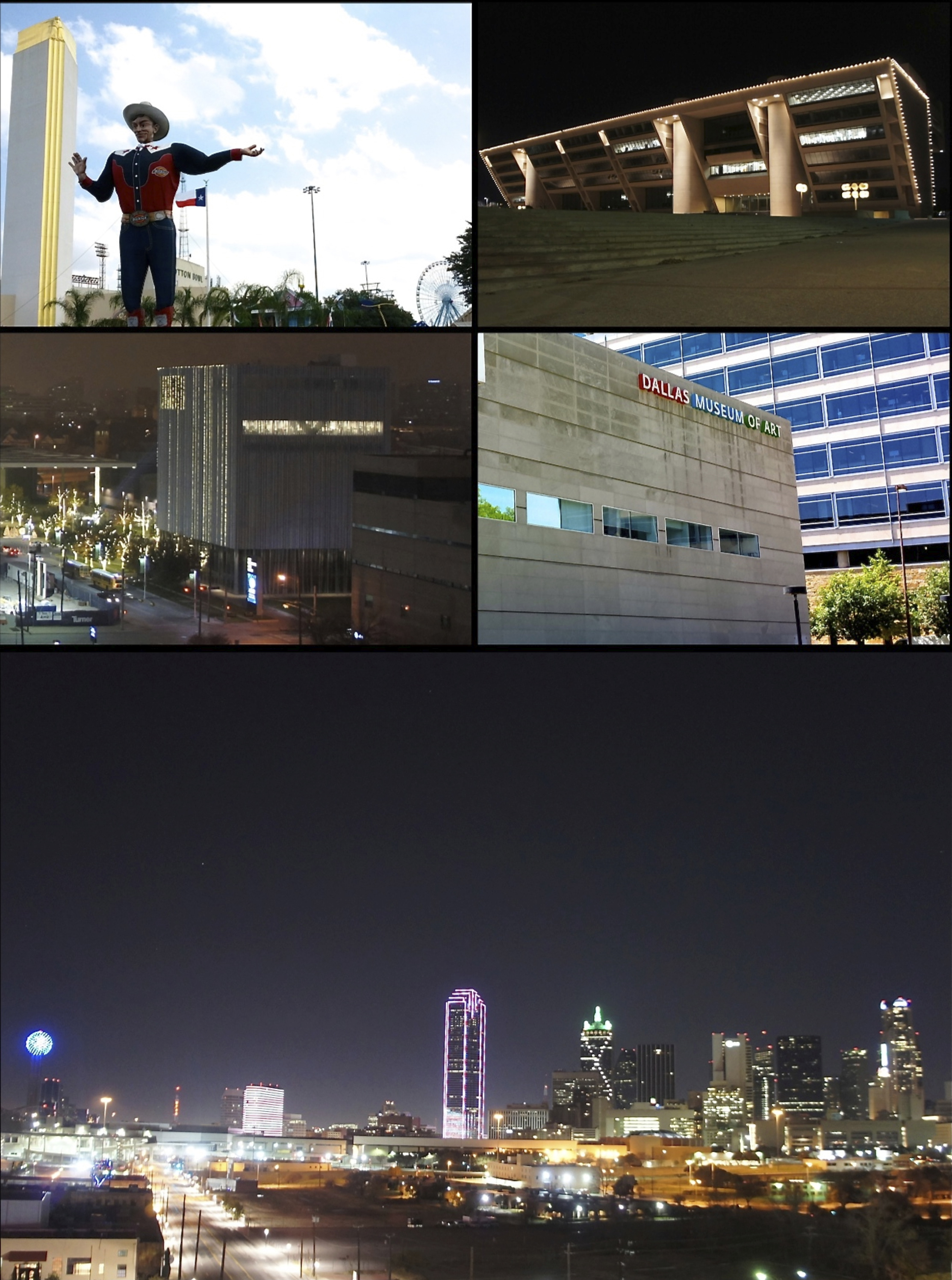 A collage of photos of landmarks in Dallas (with dates taken in parentheses in DD/MM/YY format): Clockwise from top left: Fair Park (15/10/12), Dallas City Hall (24/12/13), Dallas Museum of Art (03/08/13), Dallas skyline with holiday lighting (24/12/13), and the Dee and Charles Wyly Theatre (20/12/13).